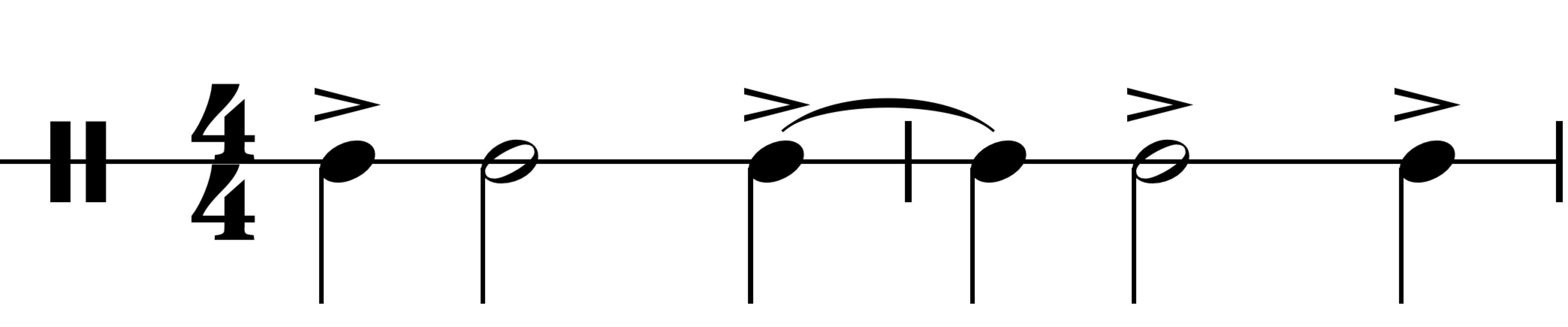 Two point syncopation (Original text : Created by Hyacinth using Sibelius. Source Day, Holly and Pilhofer, Michael (2007). Music Theory For Dummies, p.60. ISBN 0764578383.)